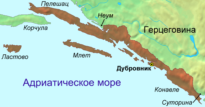 Map of the Republic of Ragusa as of 1808